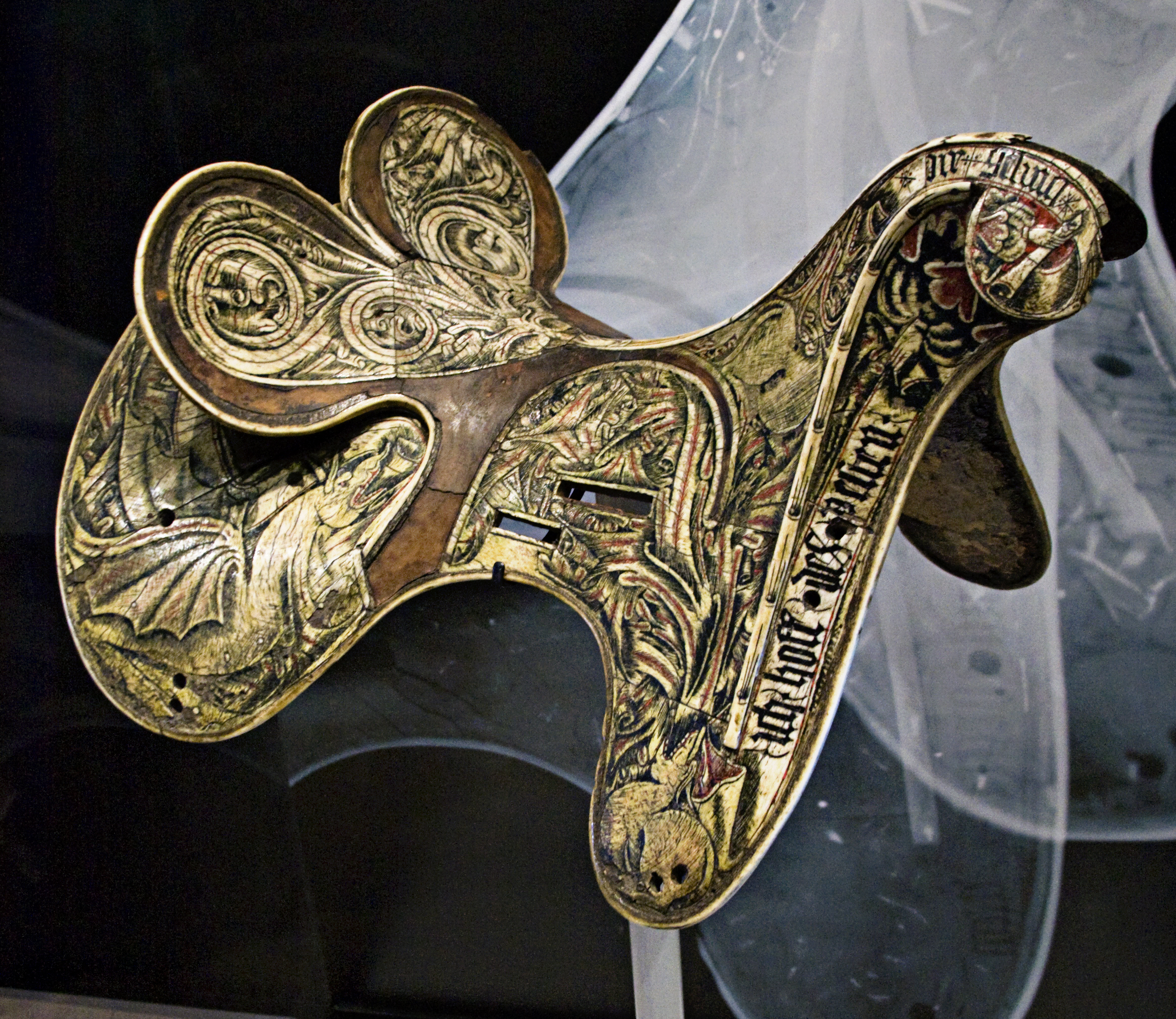 Ornate saddle in the royal armories in the Tower of London. Tag for the exhibit states: "Saddle for the Order of the Dragon. This saddle was possibly given to King Henry V of England when he was admitted into the knightly Order of the Dragon in 1416 by King Sigismund of Hungary. It is one of a series of medieval saddles all decorated on the theme of St. George and the Dragon. They are ornamented with bone inlay plates and some, including this example, have inscriptions in German or Latin. Probably Austrian or Hungarian, about 1410-1440. Tower Armoury. vI 95"